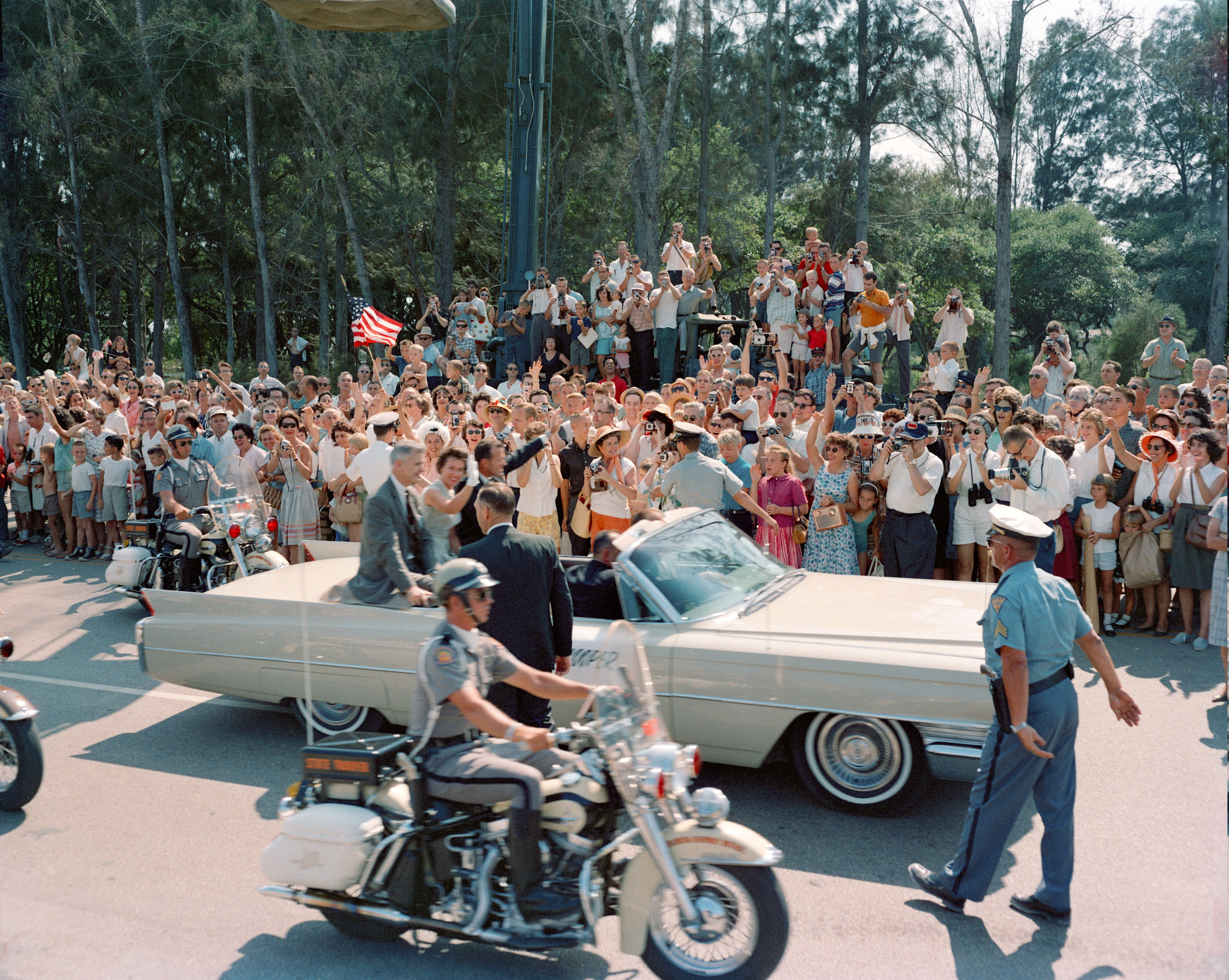 Astronaut L. Gordon Cooper and his wife at Patrick Air Force Base rides convertable in parade given in his honor. NASA Identifier: S63-07645 Unit: NASA DVIDS Tags: nasa; johnsonspacecentermediaarchive